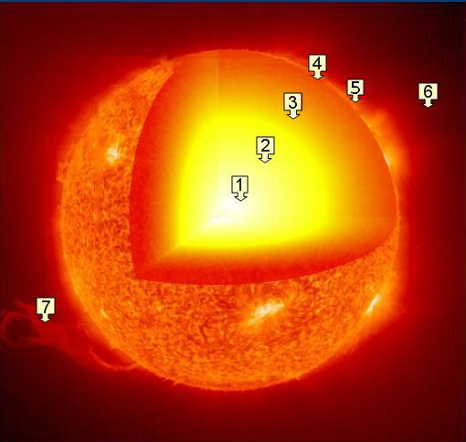 Layers of the sun